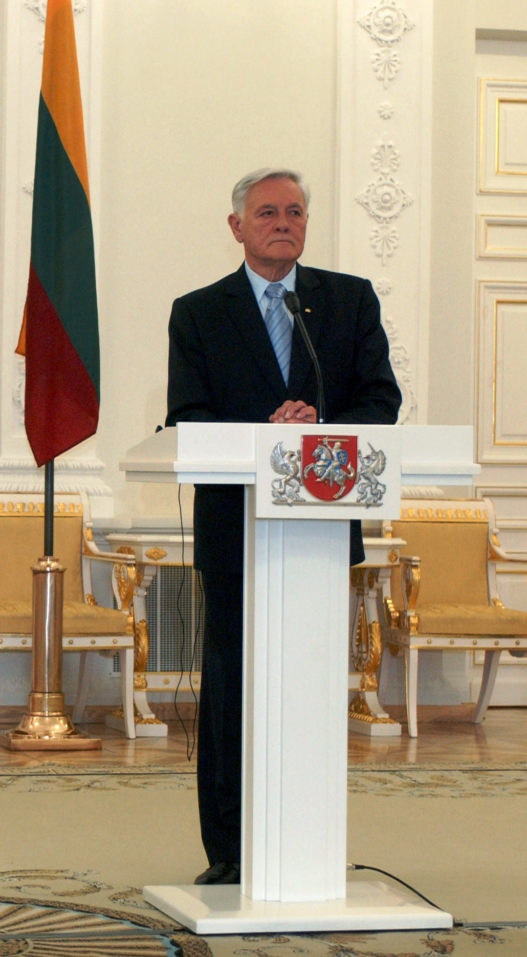 Valdas Adamkus (right), President of the Republic of Lithuania, participate in a press conference during a bi-lateral NATO-Ukraine High-Level Consultation meeting in Vilnius, Vilnius County, Lithuania, on October 23, 2005.